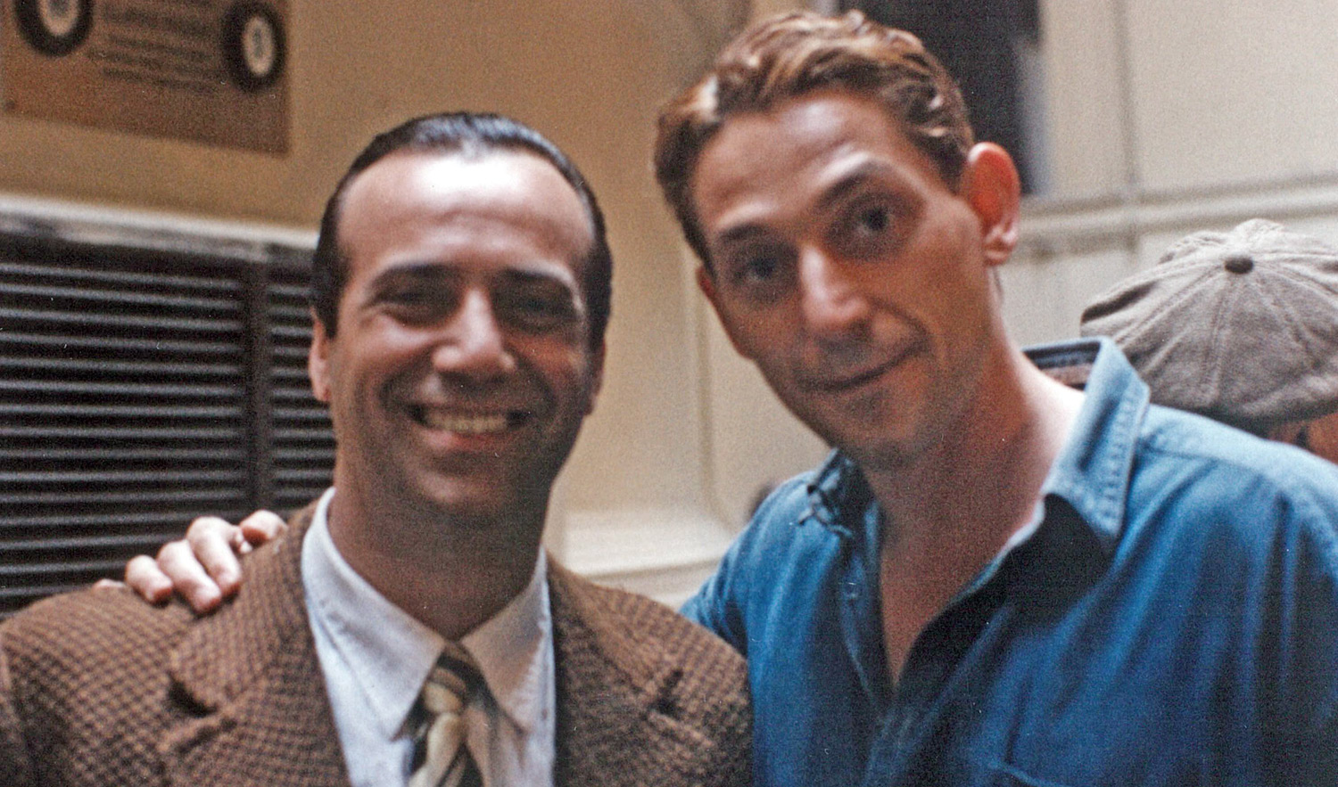 Steve Scott with Massimo Ghini on the Set of Celluloide, Rome-Italy 1996